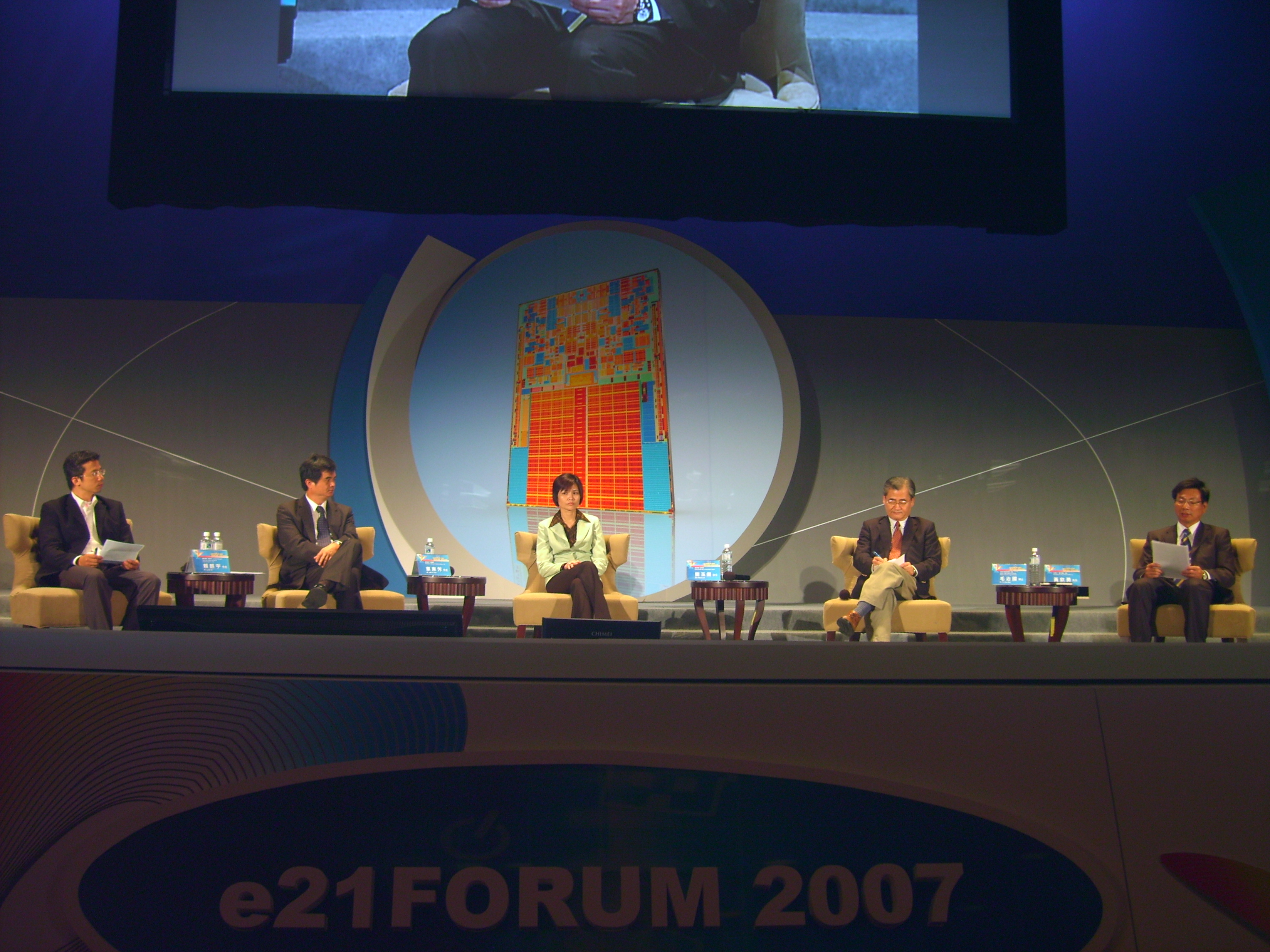 2007 e21 Forum Panel Discussion.